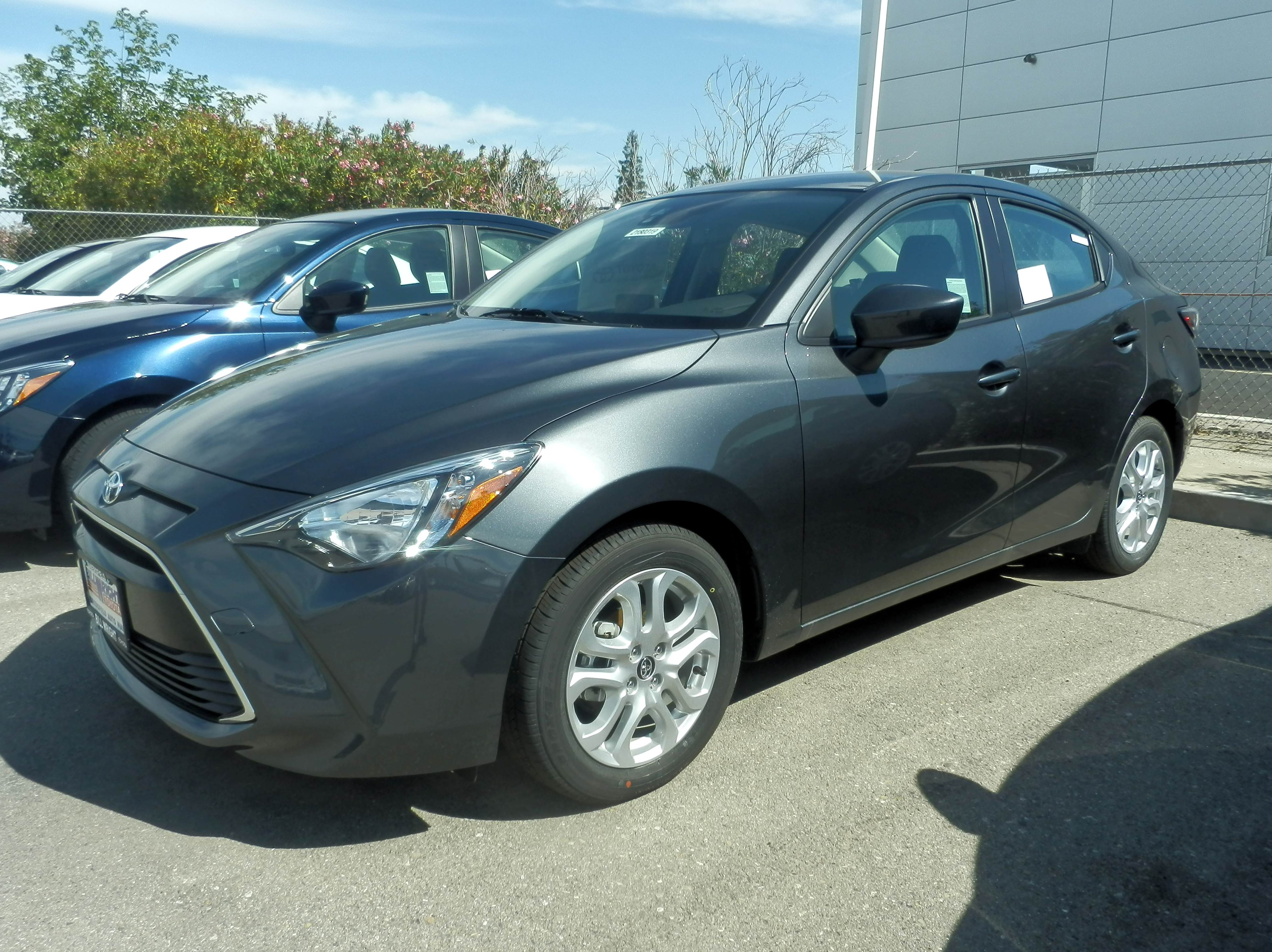 Toyota Yaris iA in Bakersfield